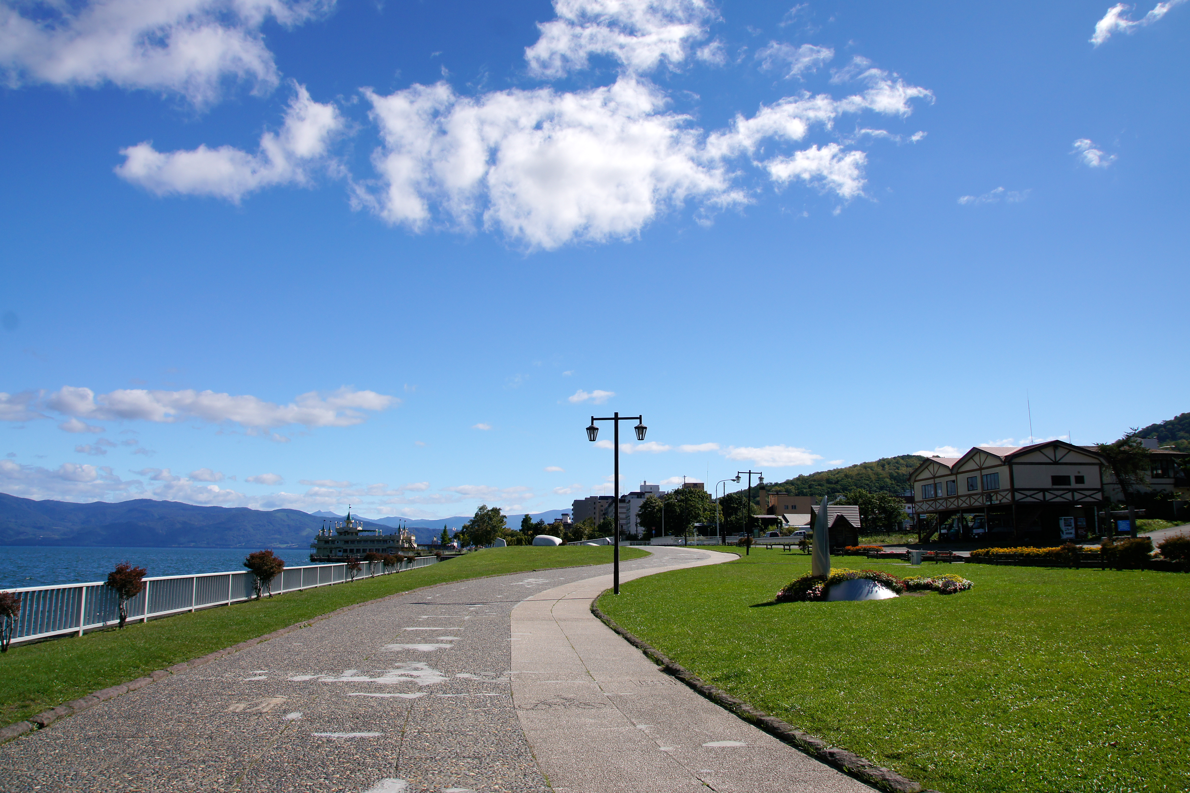 On the lakeside in Lake Tōya, Toyako, Hokkaido prefecture, Japan.